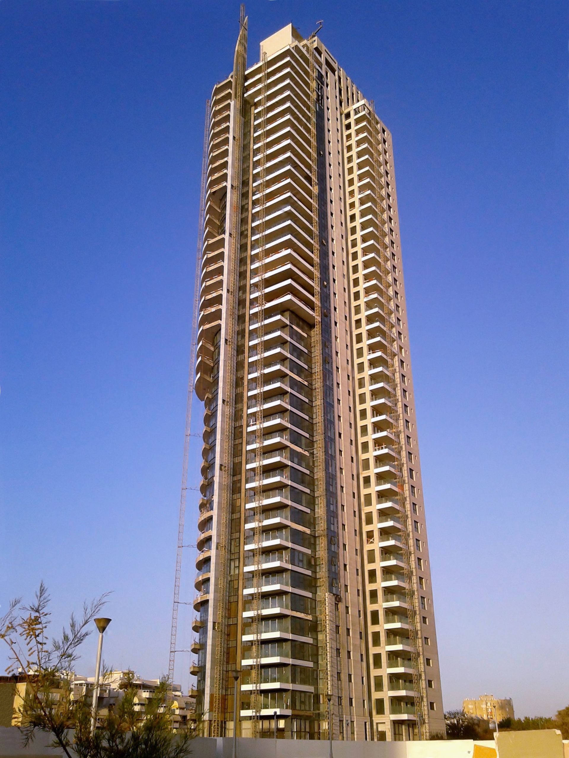 Nave Noff Tower in Bat-Yam, Israel